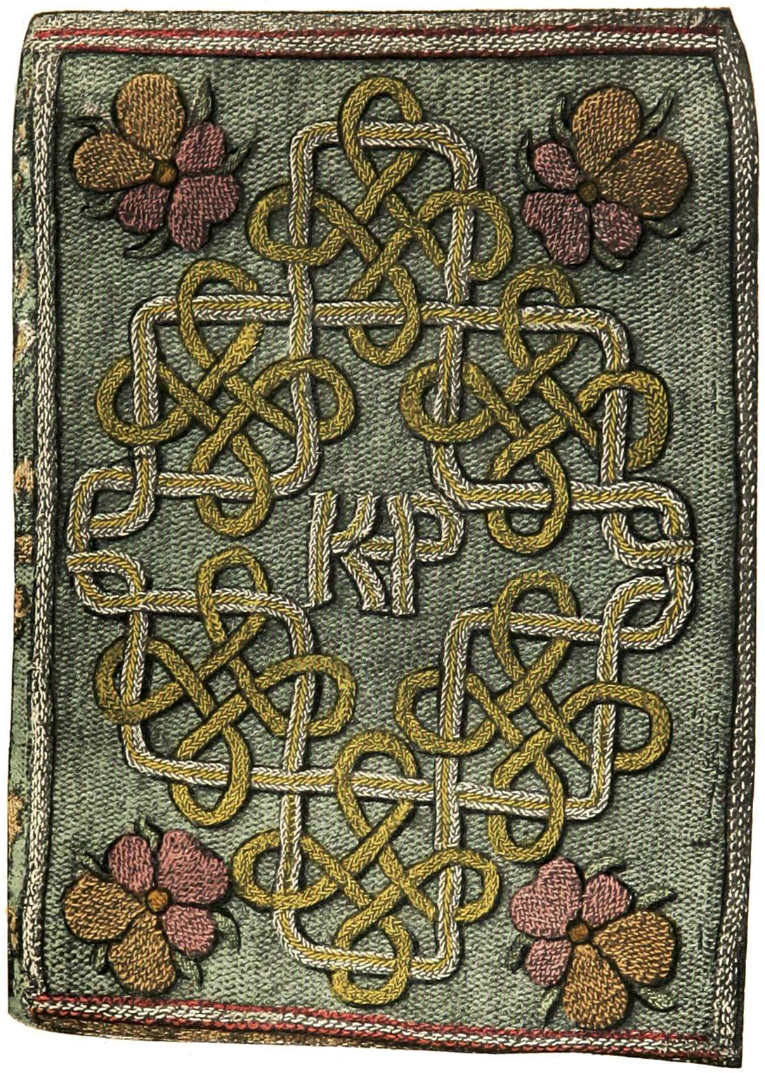 Embroidered bookbinding, The Miroir or Glasse of the Synneful Soul, manuscript by the Princess Elizabeth (later Elizabeth I of England) at age 11, 1544, and presented to her stepmother Catherine or Katherine Parr. "...Translated 'out of frenche ryme into english prose, joyning the sentences together as well as the capacitie of my symple witte and small lerning coulde extende themselves.' ...dedicated: 'From Assherige, the last daye of the yeare of our Lord God 1544 ... To our most noble and vertuous Quene Katherin, Elizabeth her humble daughter wisheth perpetuall felicitie and everlasting joye.' "The book is now one of the great treasures of the Bodleian Library; it is bound in canvas, measures about 7 by 5 inches, and was embroidered in all probability by the hands of the Princess herself... "The design is the same upon both sides. The ground is all worked over in a large kind of tapestry-stitch in thick pale blue silk, very evenly and well done, so well that it has been considered more than once to be a piece of woven material. On this is a cleverly designed interlacing scroll-work of gold and silver braid, in the centre of which are the joined initials K. P. "In each corner is a heartsease worked in thick coloured silks, purple and yellow, interwoven with fine gold threads, and a small green leaflet between each of the petals. The back is very much worn, but it probably had small flowers embroidered upon it."